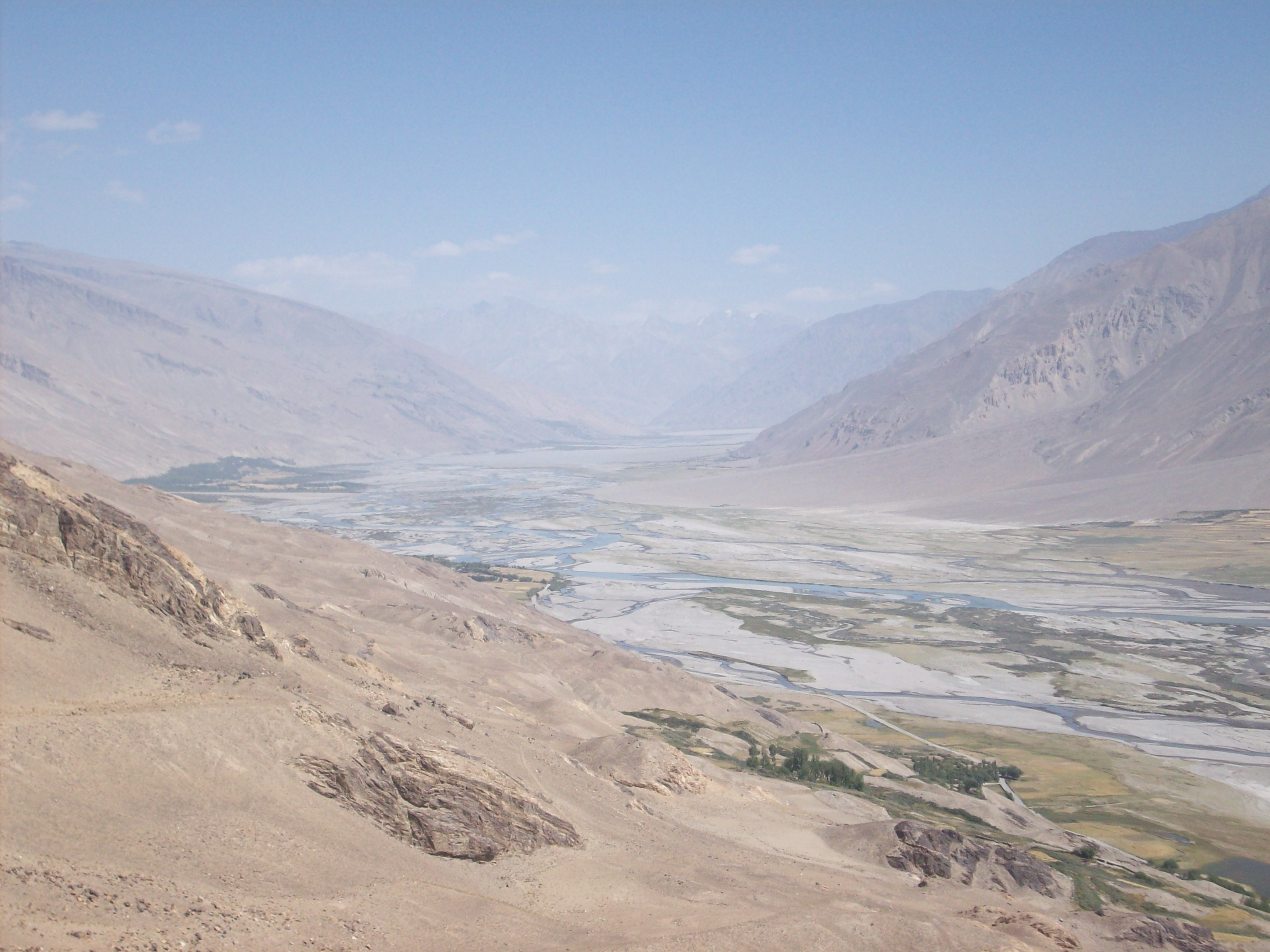 Untitled